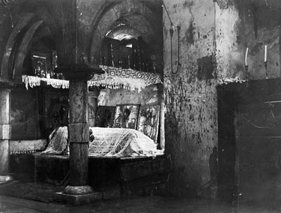 "The holy tomb of John Babtizers in St. Garabed (4th century, fully destroyed in 1915) "